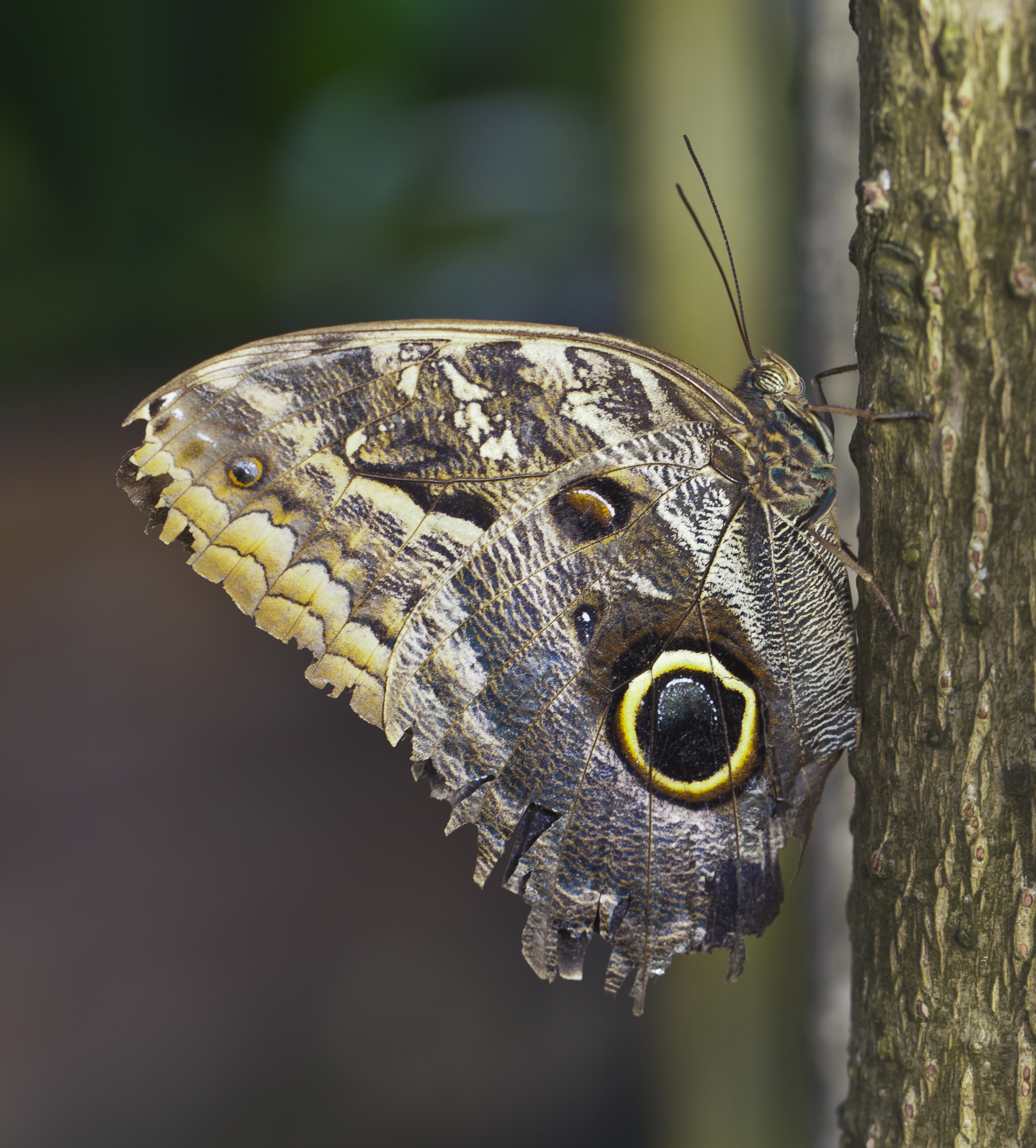 Forest Giant Owl (Caligo eurilochus), Munich Botanic Garden, Germany